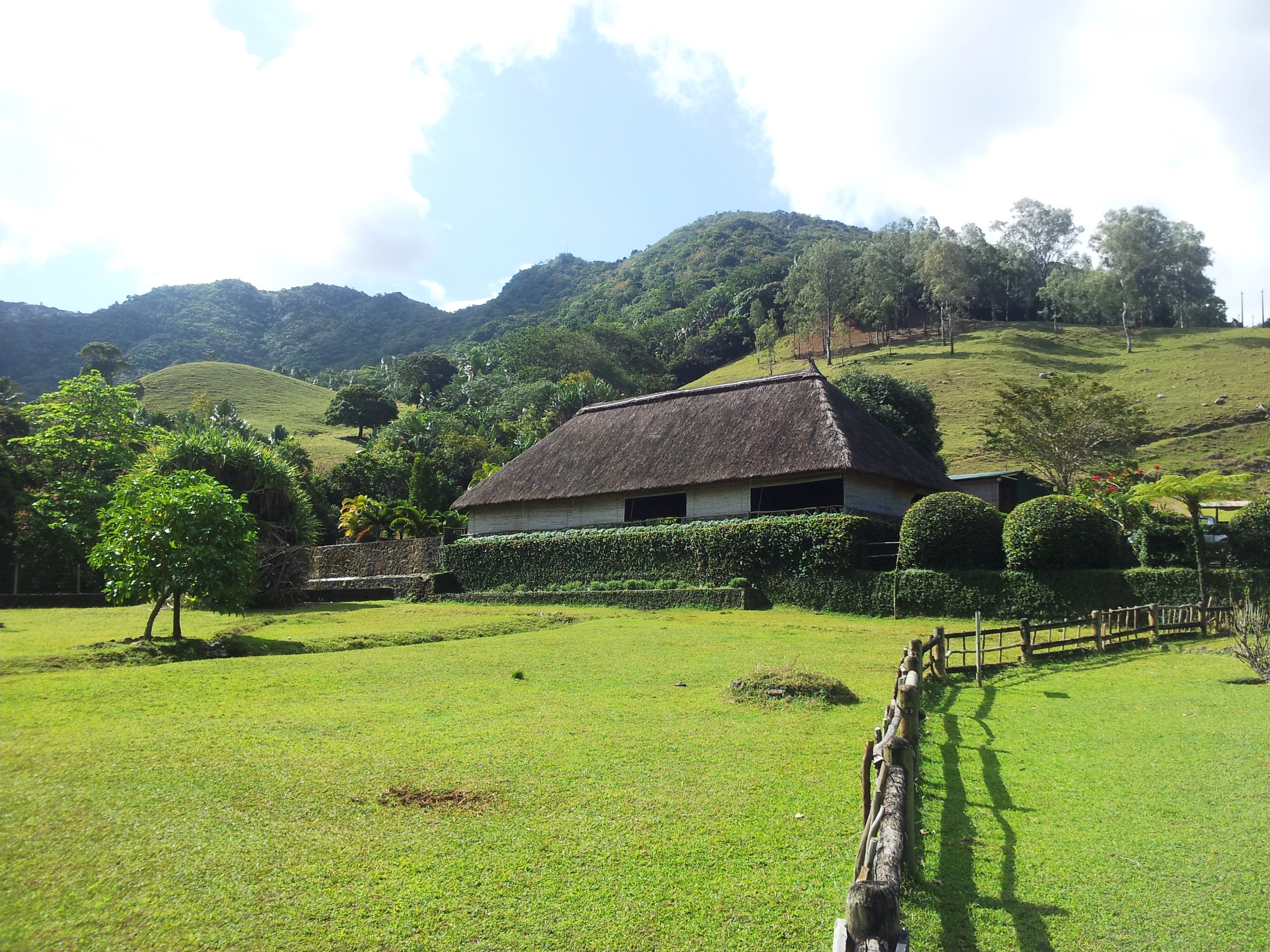 Bar and Restaurant complex of the Vallee Ferney Nature Reserve